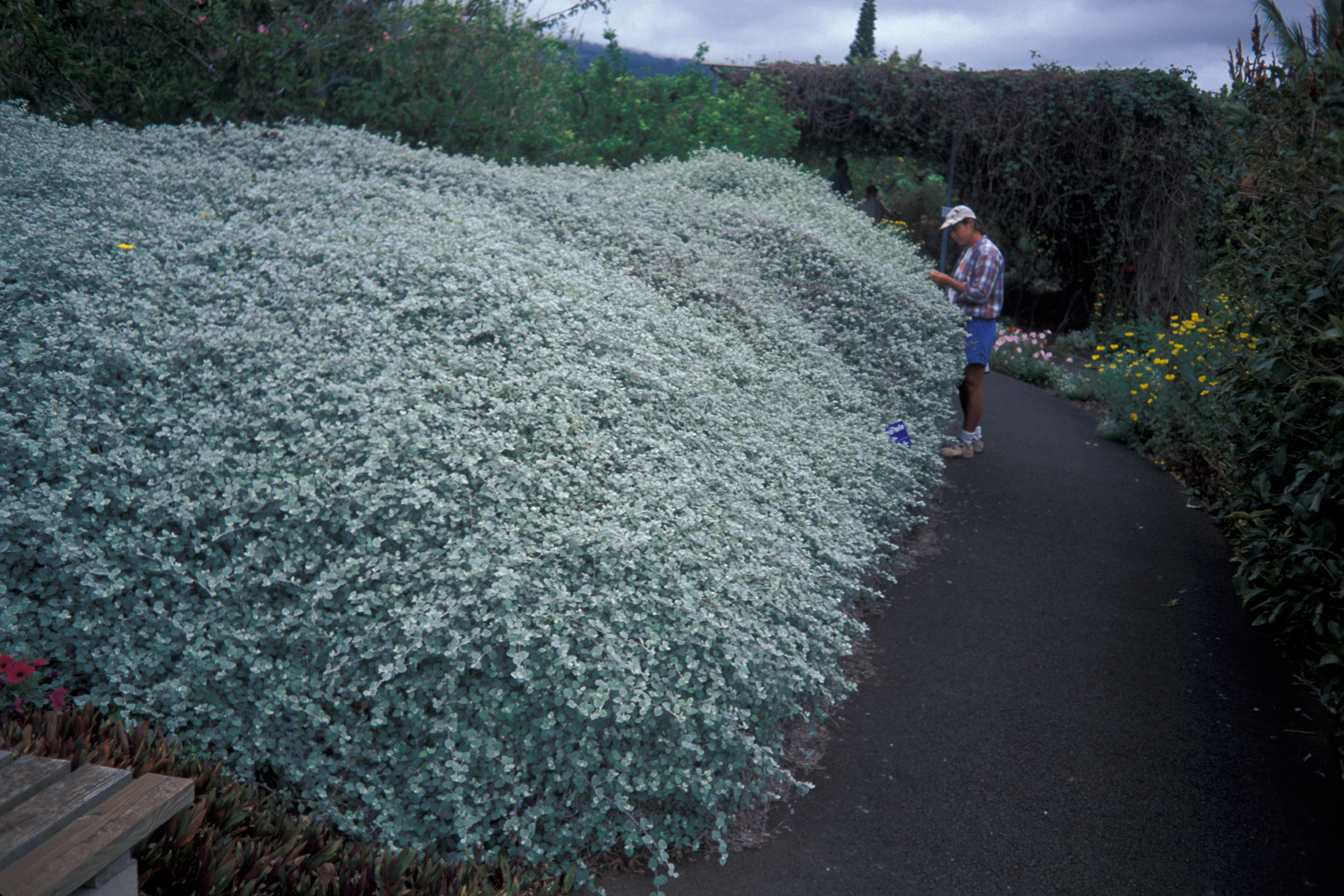 Helichrysum petiolare (habit with Kim). Location: Maui, Enchanting Floral Gardens of Kula